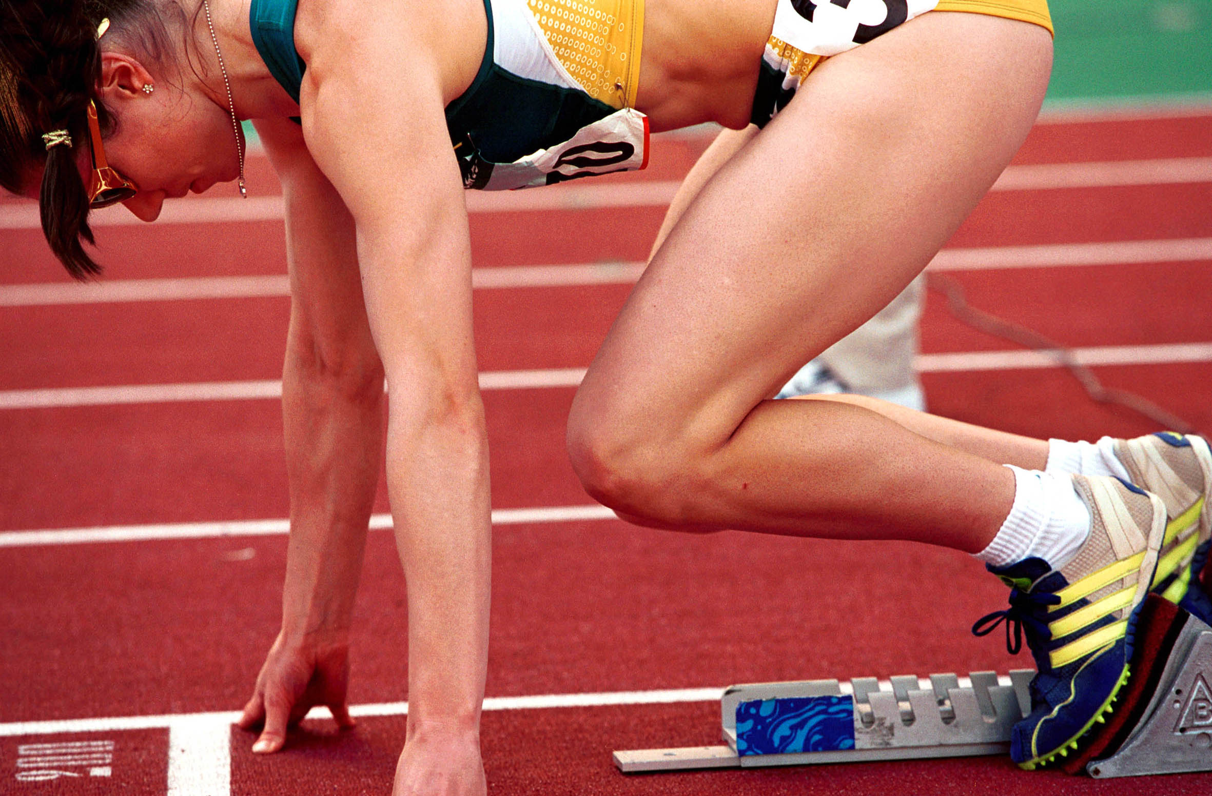 Close up of Australian track athlete Lisa Llorens on the starting blocks during race competition at the 2000 Sydney Paralympic Games, Day 07